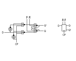 D-type flip/flop with asyncronous Preset and Clear